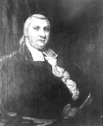 Portrait of Judge Robert Troup (1757–1832), seated, in robe and collar. Probably painted by Ralph Earl (1751–1801) in 1786. Artist identification based on catalog description at Sawitzky, William (1945) Ralph Earl, 1751–1801, Whitney Museum of American Art . See also exhibition note at Bielinski, Stefan (2010). Robert Troup. Exhibition of the New York State Museum. Archived from the original on 2017-02-16.